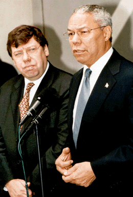 Colin Powell and Brian Cowen.